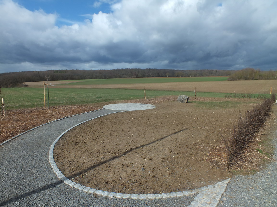 The Photo shows the place which represent the Center of post Brexit EU. It is near to Gadheim, a part of the City Veitshöcheheim in Germany / Bavaria